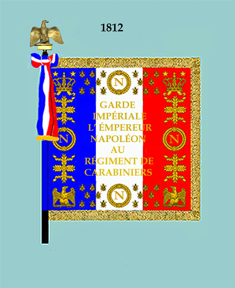 Colors of the French Carabiniers of the Imperial Guard (1812 - front)